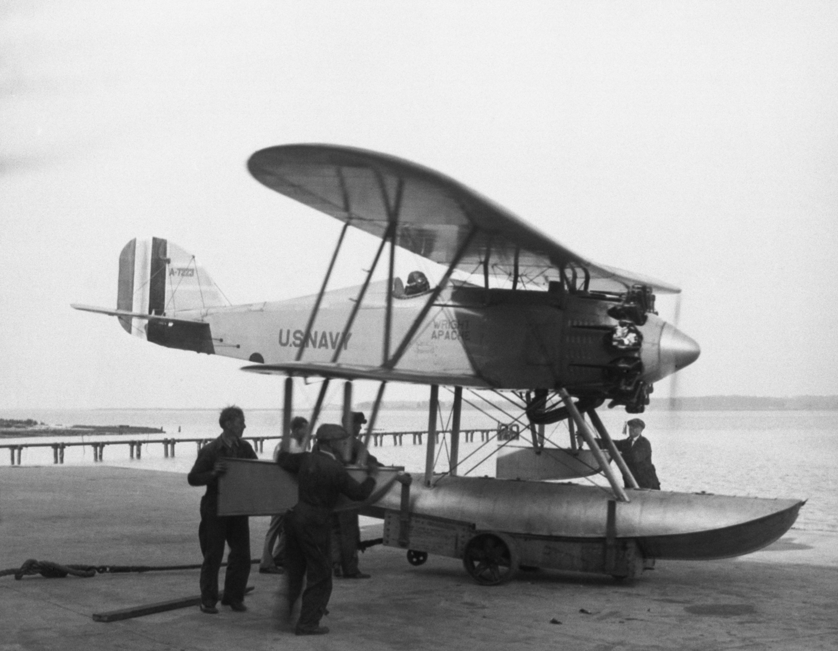 The U.S. Navy Wright XF3W-1 Apache (BuNo A7223) at the Langley Aeronautical Laboratory at Hampton, Virginia (USA). The single XF3W was a racing aircraft built by Wright Aeronautical for the U.S. Navy. In its seaplane configuration, an NACA crew prepares the Wright XF3W-1 Apache for take off from the Little Back River. The Apache was used for engine and cowling tests while with the NACA.